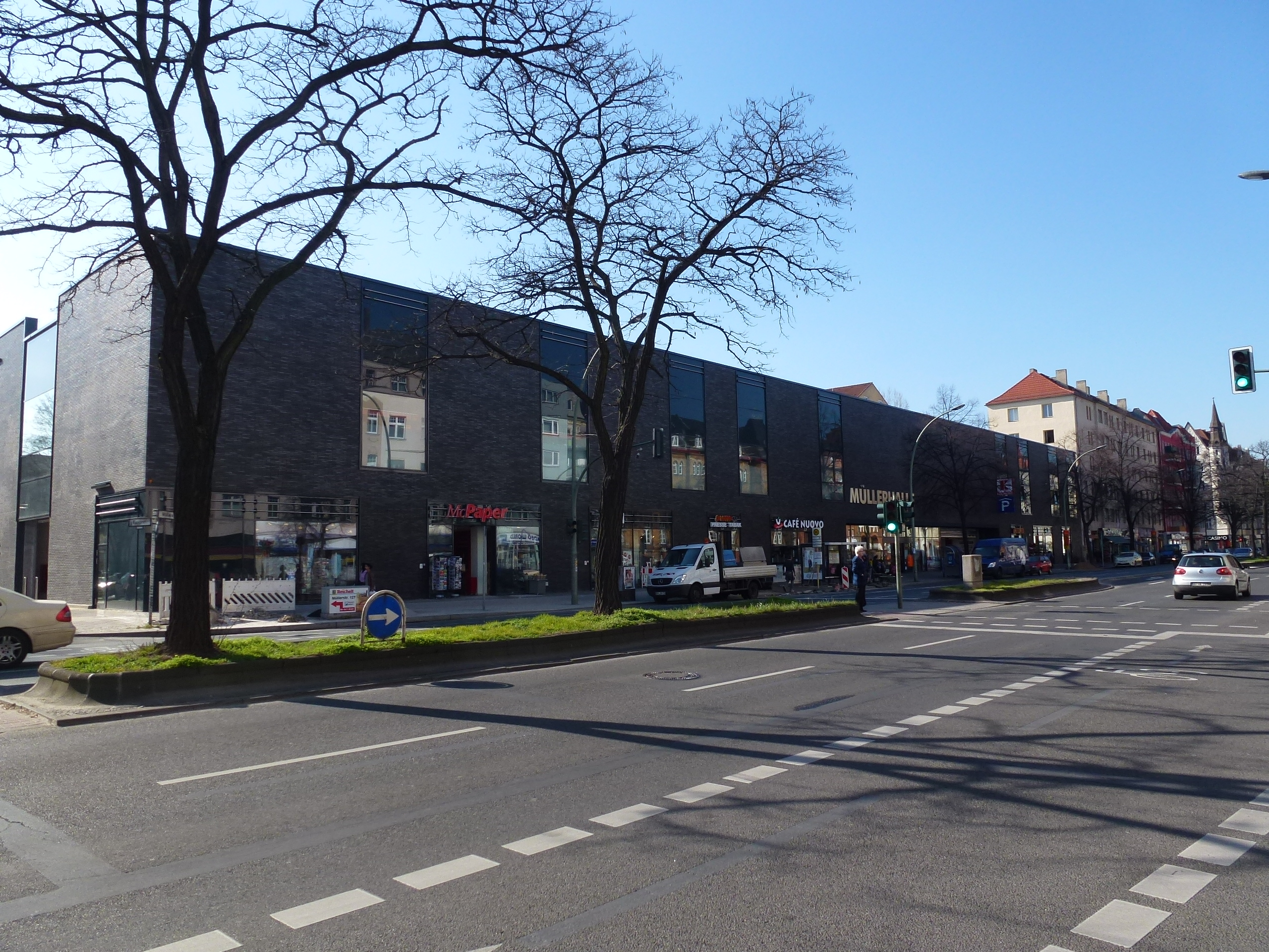 Berlin-Wedding Müllerstraße Müllerhalle